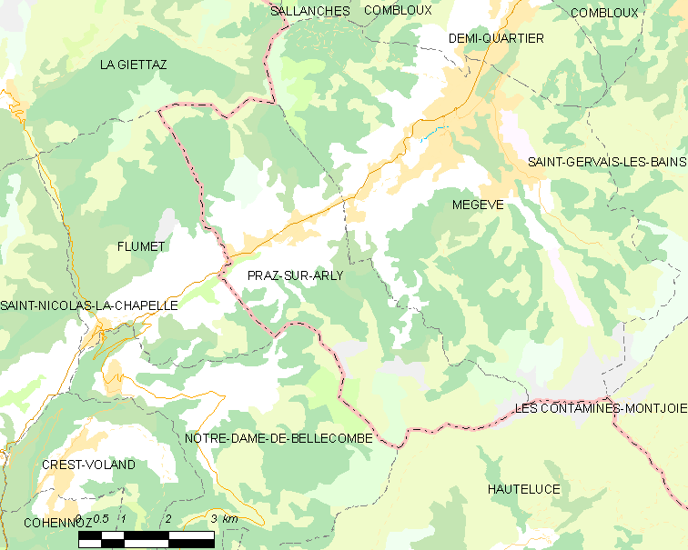 Map of French municipality Praz-sur-Arly